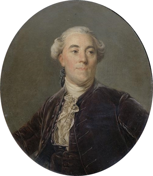 Original was exhibited at the Salon of 1783, now in the Château de Coppet.